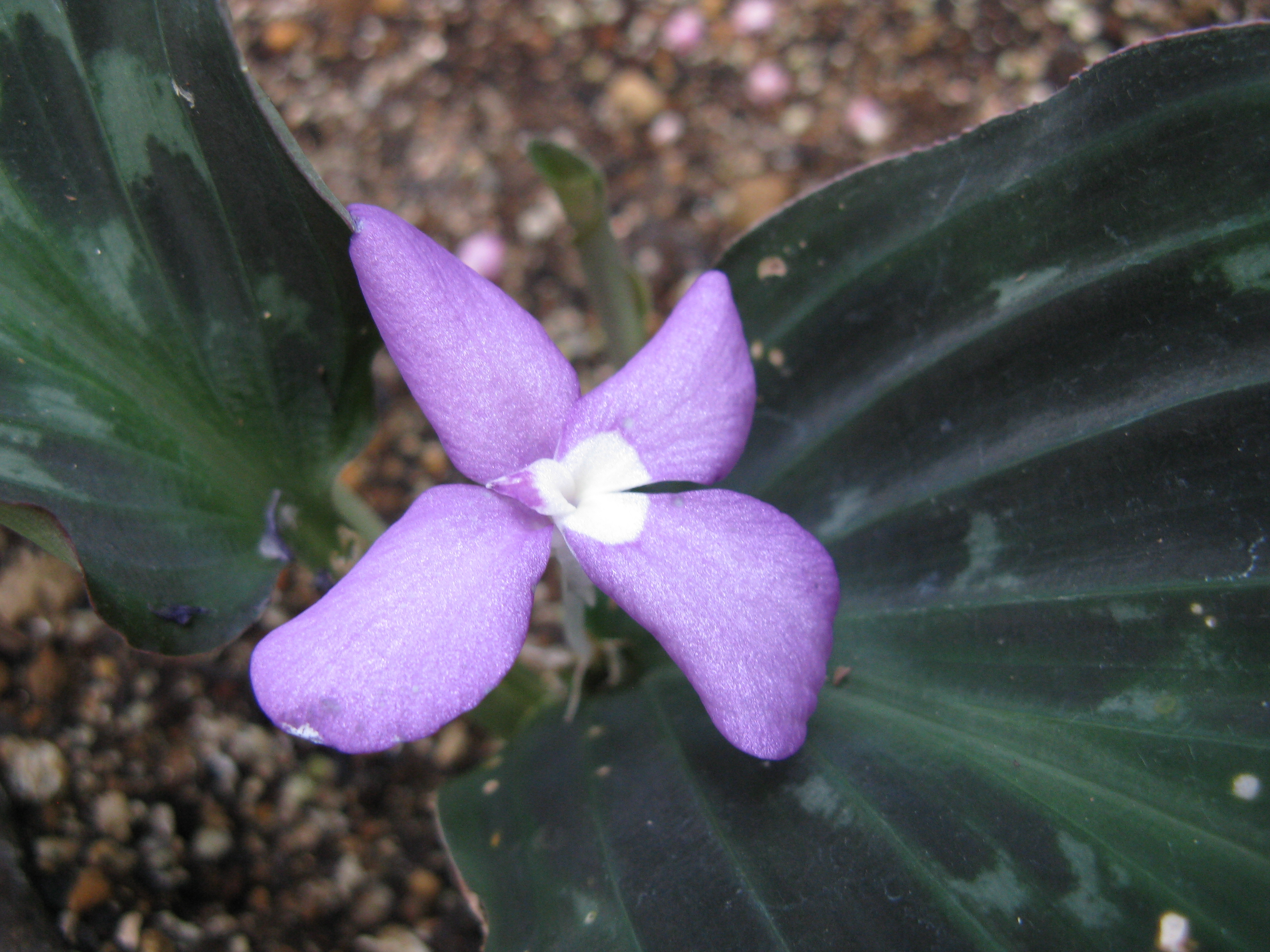 Kaempferia pulchra Place:Osaka Prefectural Flower Garden,Osaka,Japan